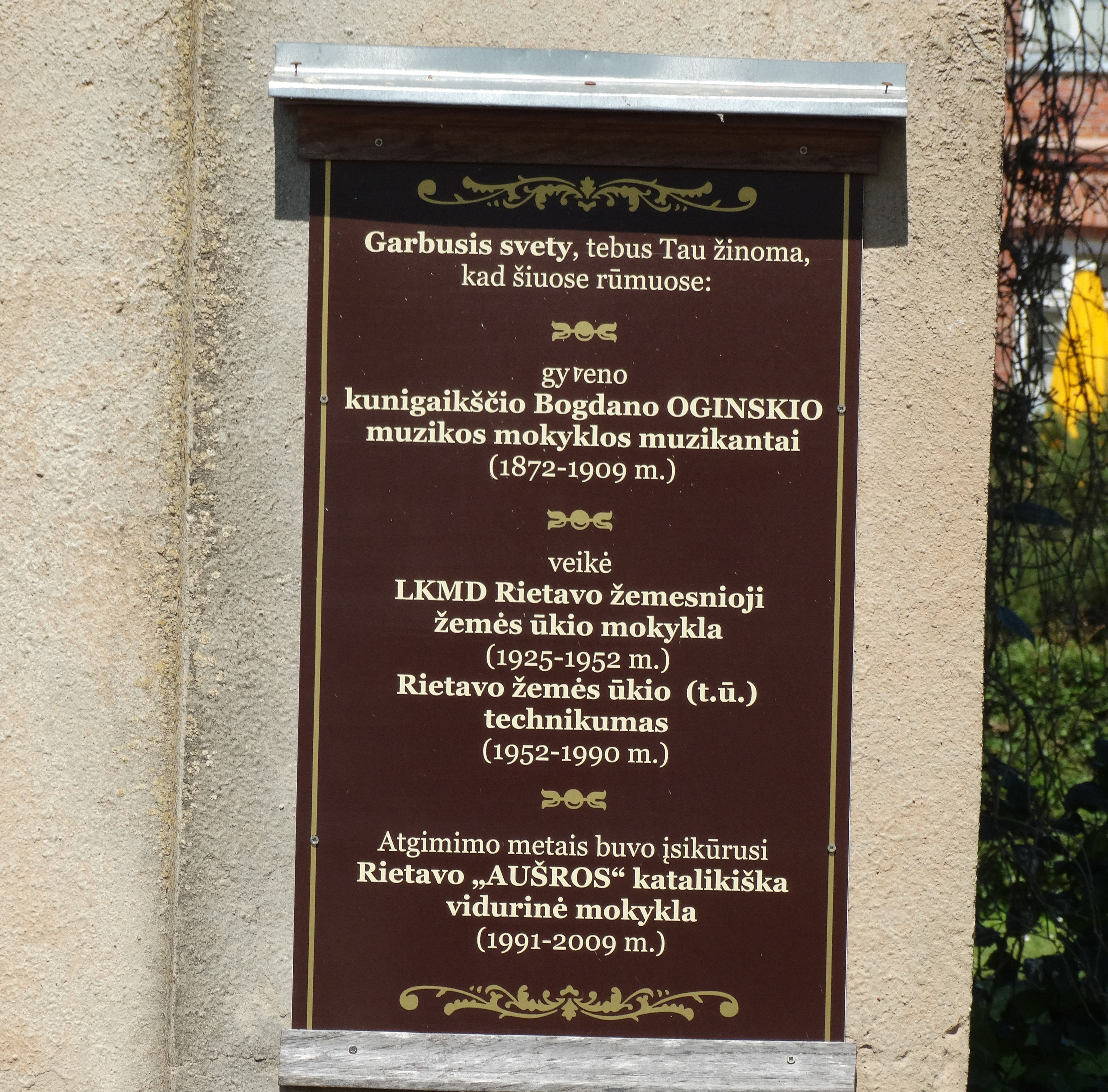 Plaque, former manor , Rietavas, Lithuania